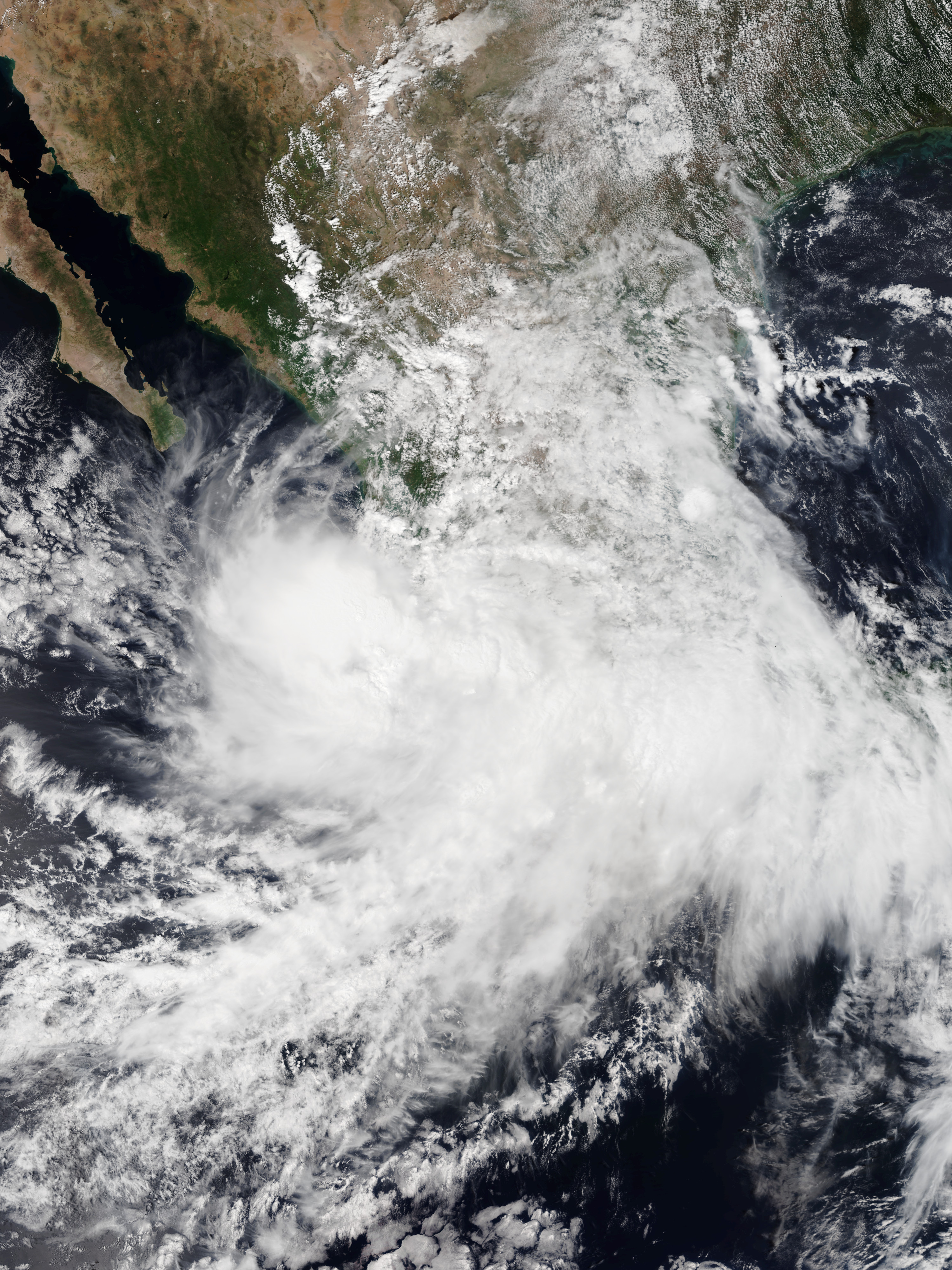 Tropical Storm Narda on September 29, 2019